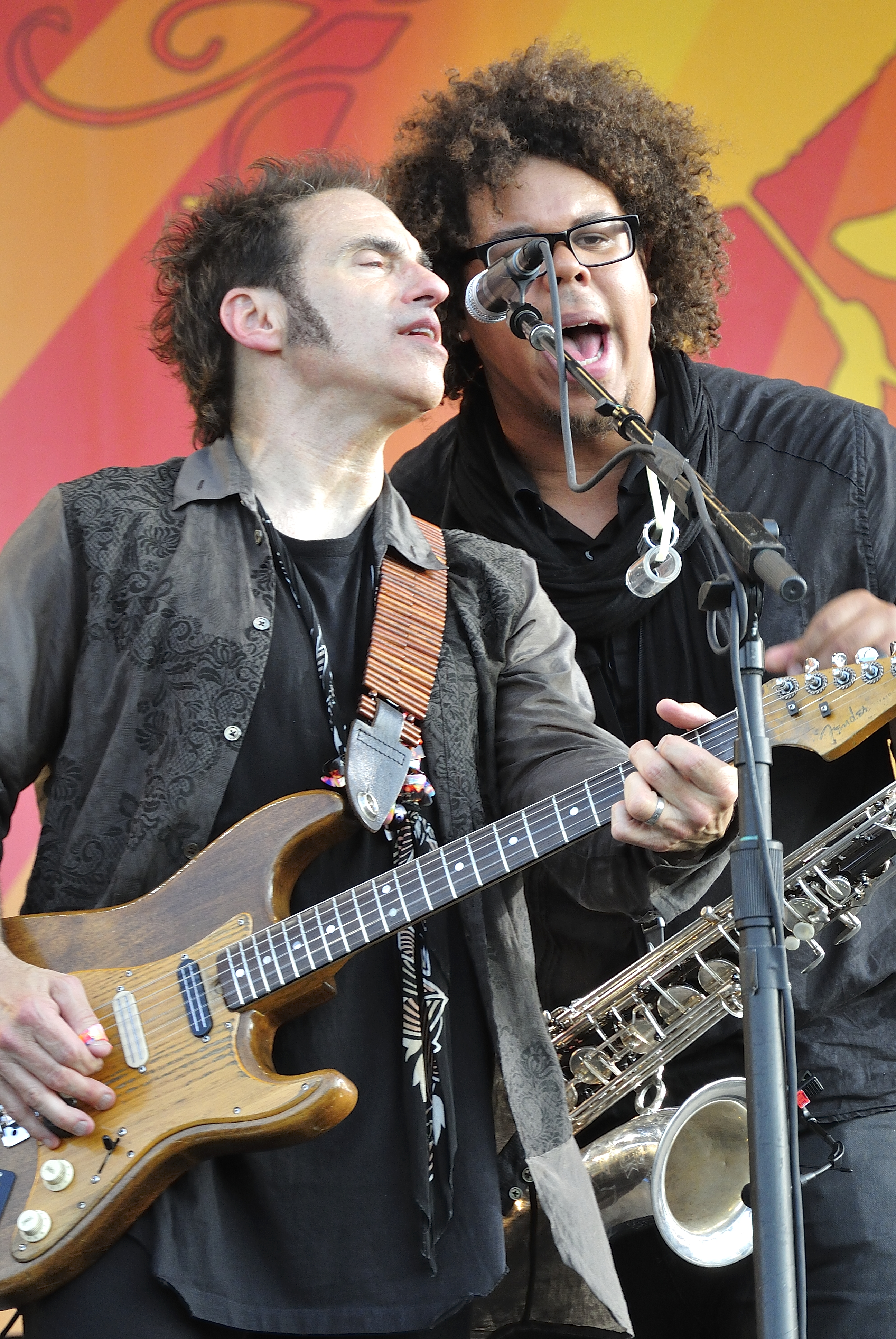 Jake Clemons (right) and Nils Lofgren performing with Bruce Springsteen and The E Street Band at the 2012 New Orleans Jazz & Heritage Festival.